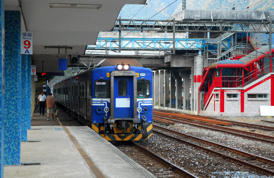 Houtong Station is a local train station of Yilan Line, part of Taiwan's eastern rail line. It's located within the boundary of Rueifang Township, Taipei County. This photo shows EMU512 commuter train stopping on the platform.中文（台灣）: 侯硐車站是臺鐵宜蘭線上的一座地方車站，位於臺北縣瑞芳鎮內。圖中見到的是EMU512區間電聯車停靠在月台上。